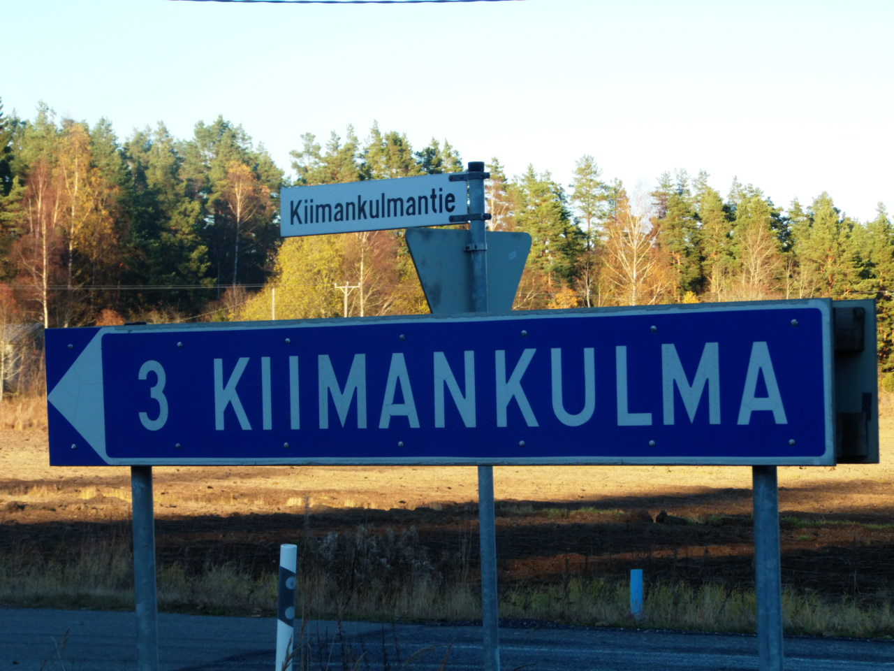 Sign to Kiimankulma